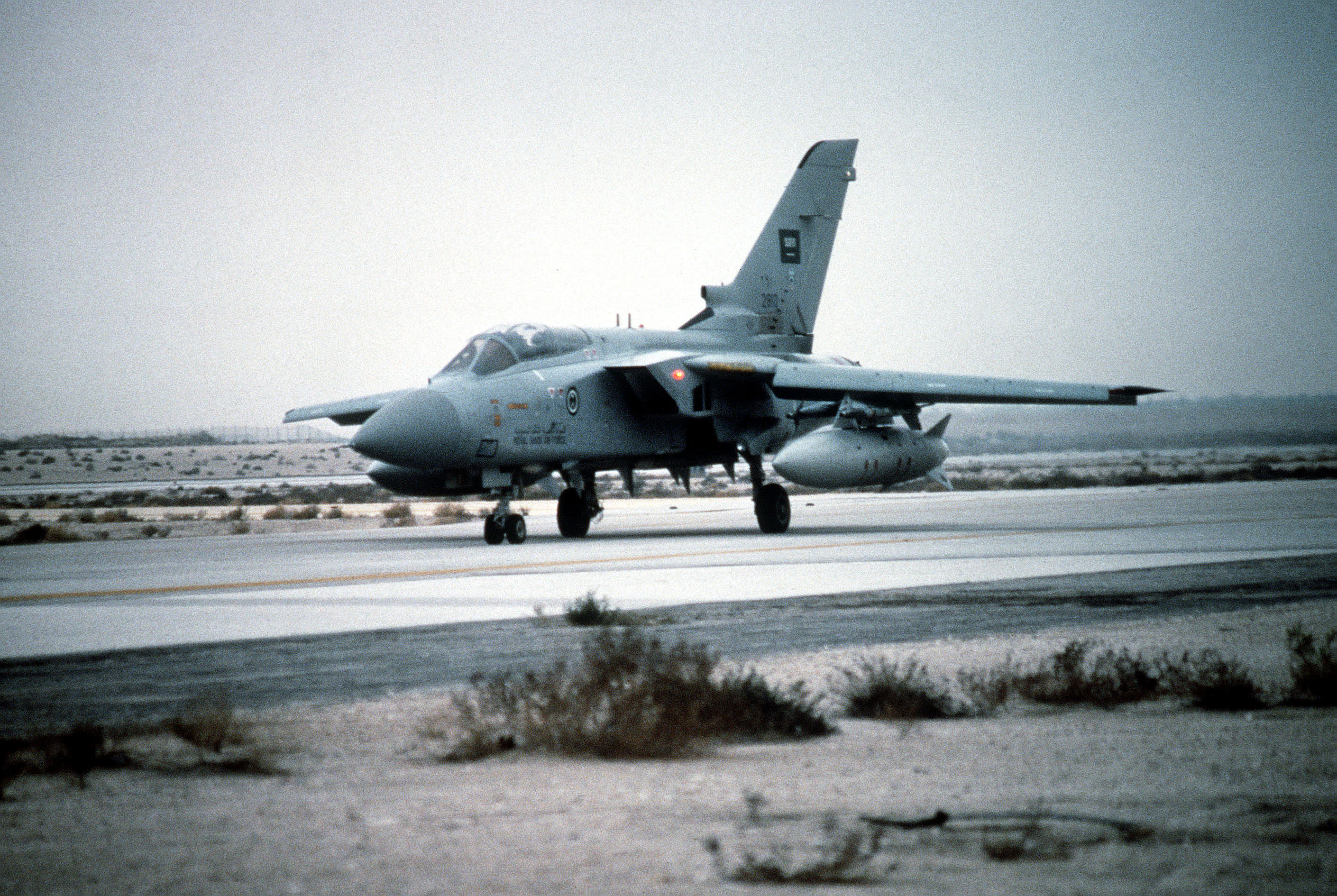 A Royal Saudi Air Force Panavia Tornado F.3 aircraft taxis on a runway as it prepares to take off on a mission during Operation "Desert Storm" on 2 February 1991.